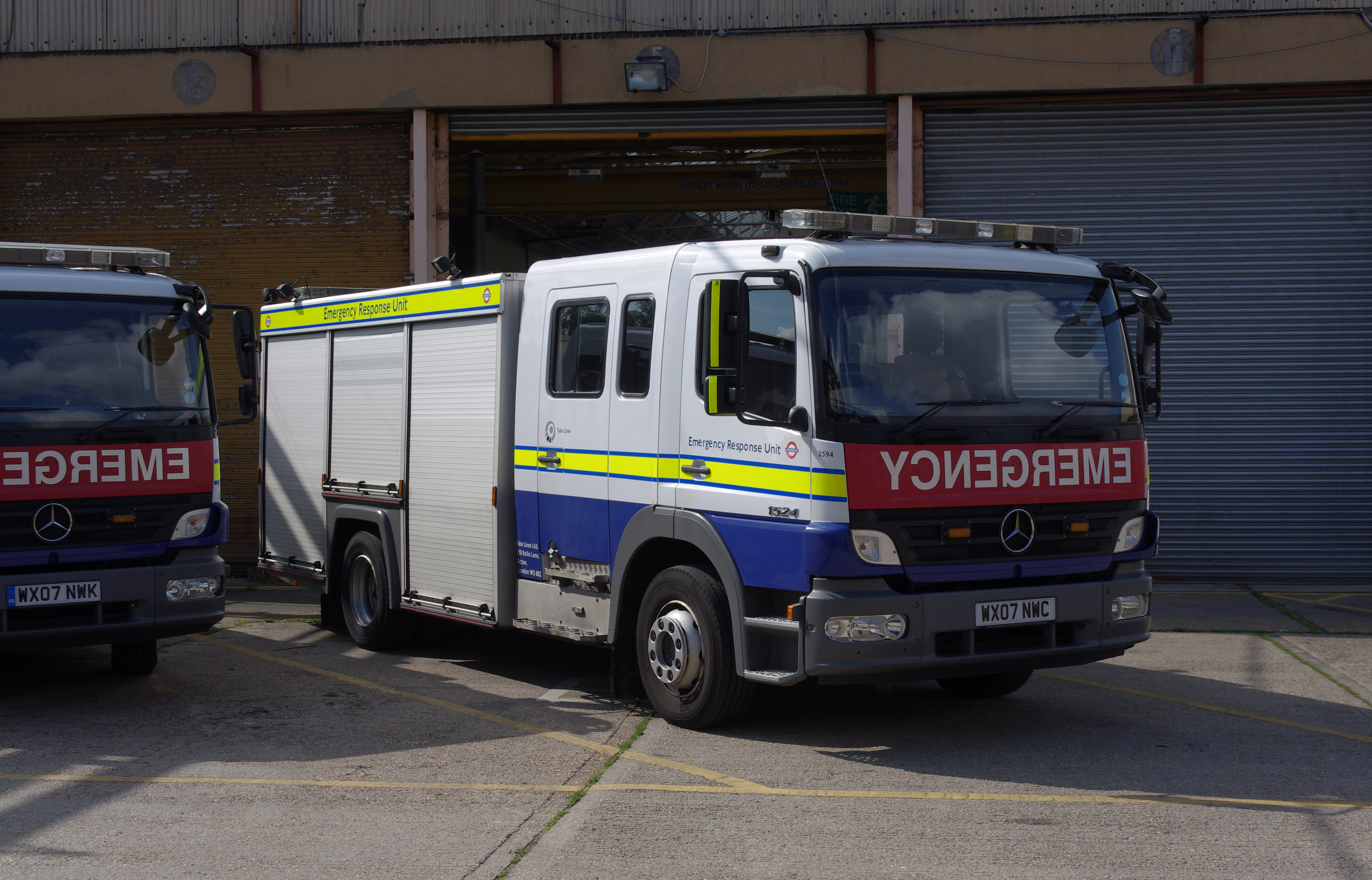 One of the vehicles used by the London Underground Acton Works Emergency Response Unit, parked at the works.